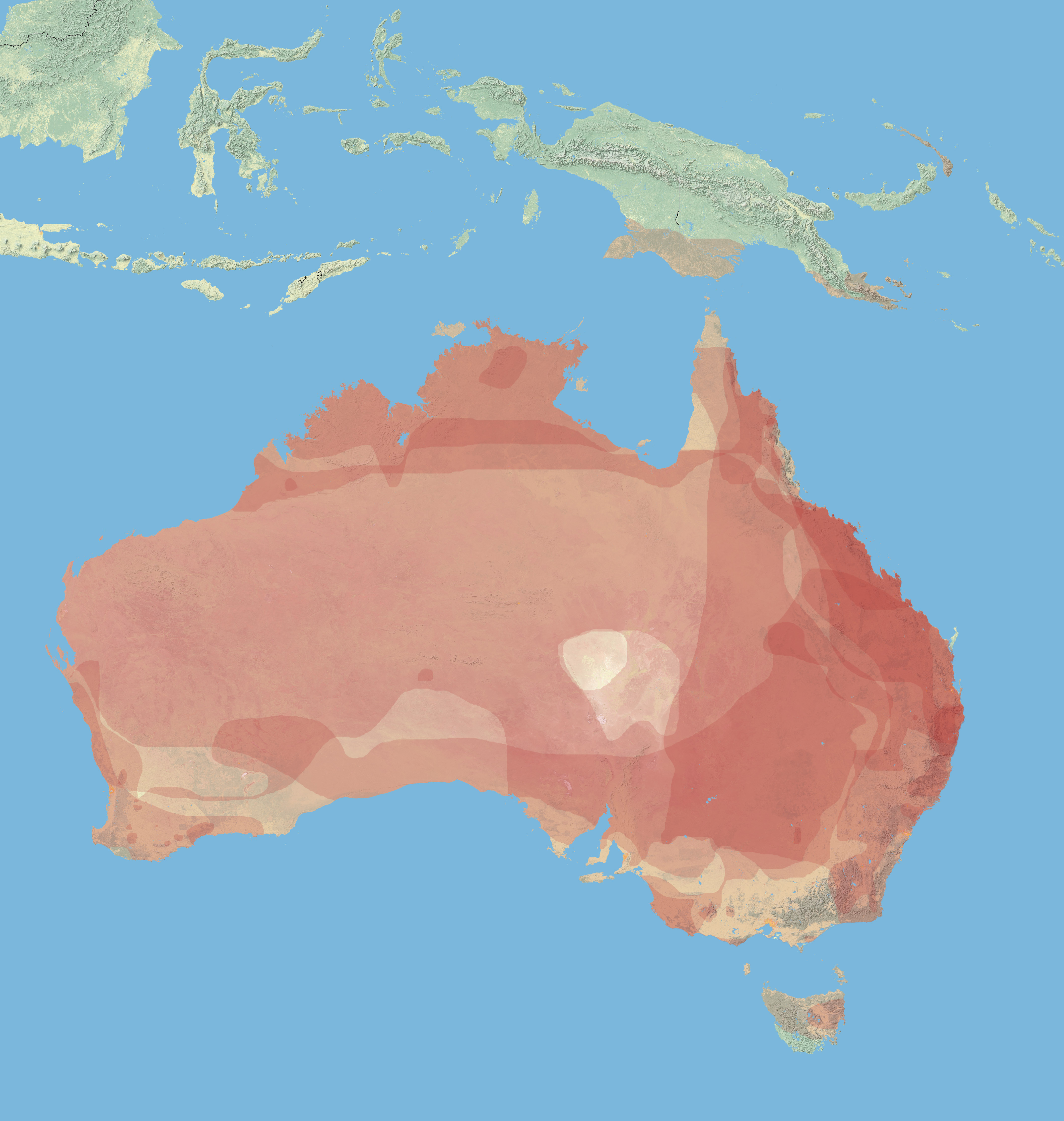 The Species Density of the Macropus Genus